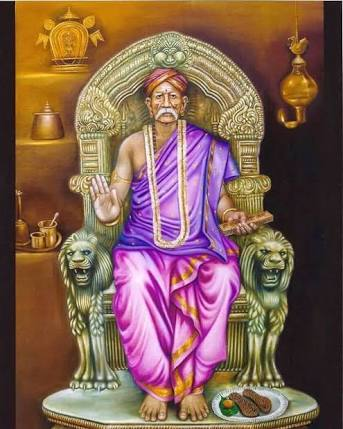 Mogaveera Kulaguru